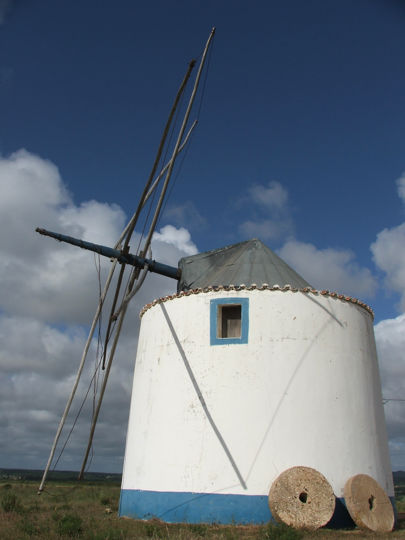 Arregata Windmill, Rogil, Aljezur, Algarve, Portugal about 1km south of Rogil village